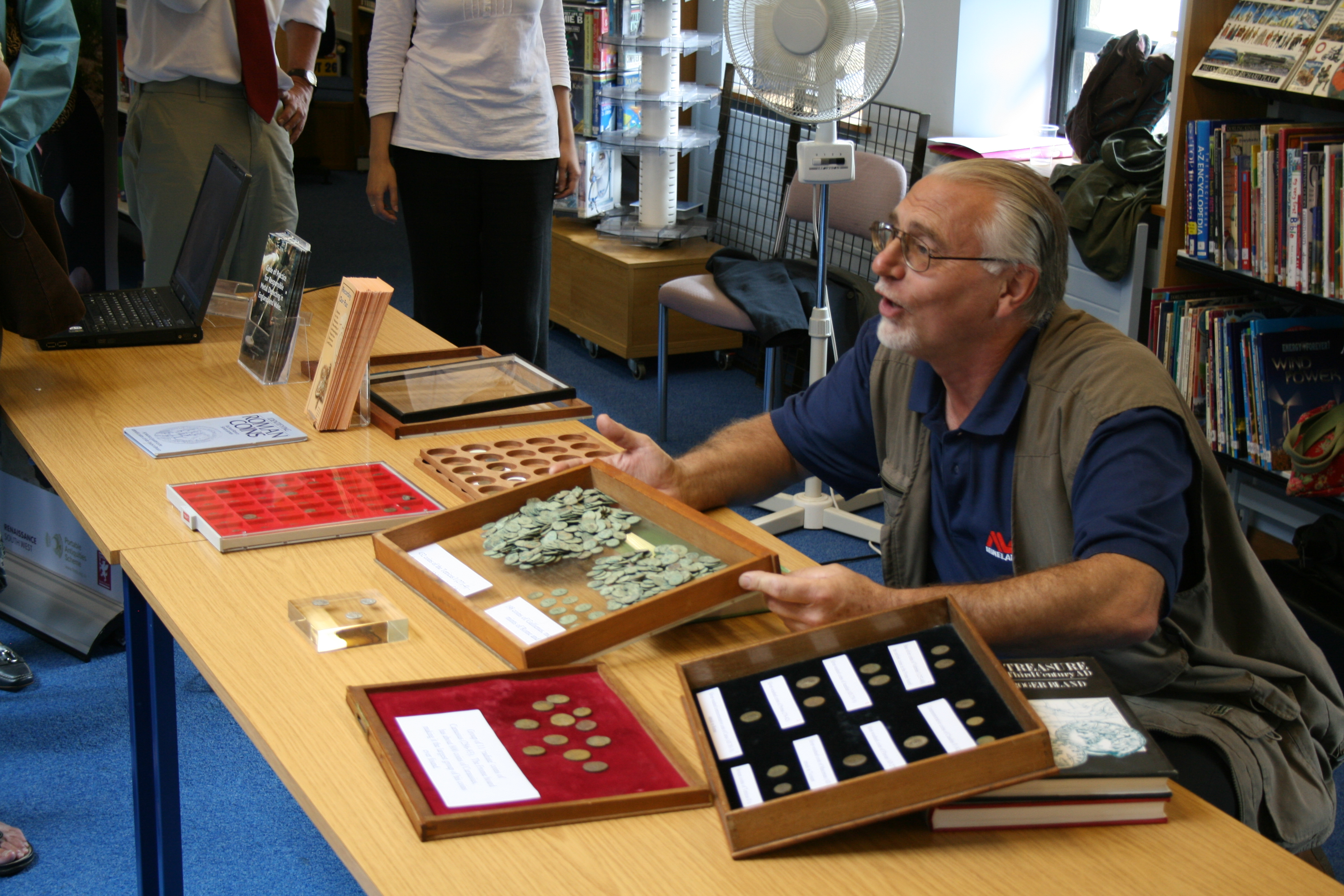 Dave lifts a coin tray